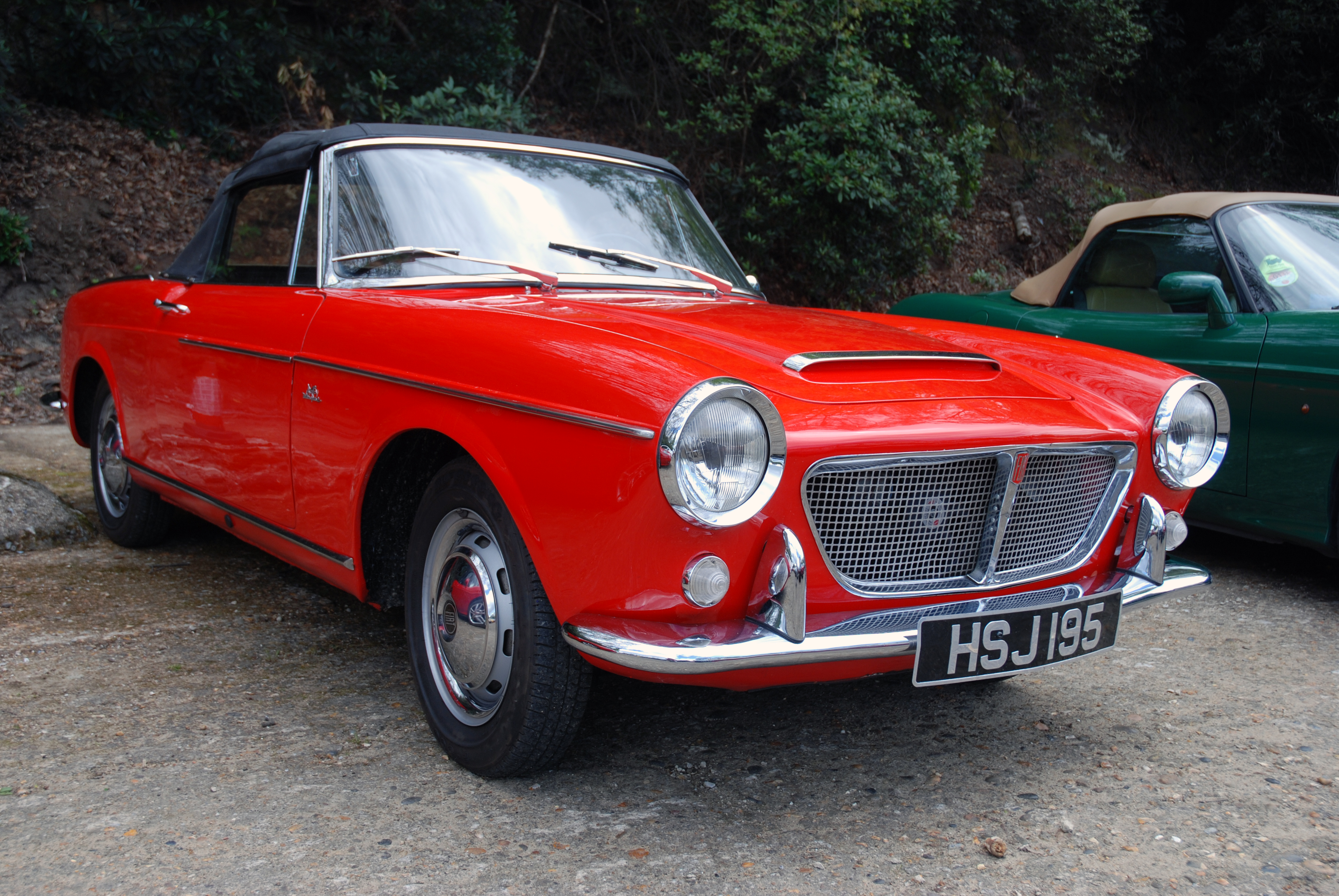 Brooklands,1st May 2010